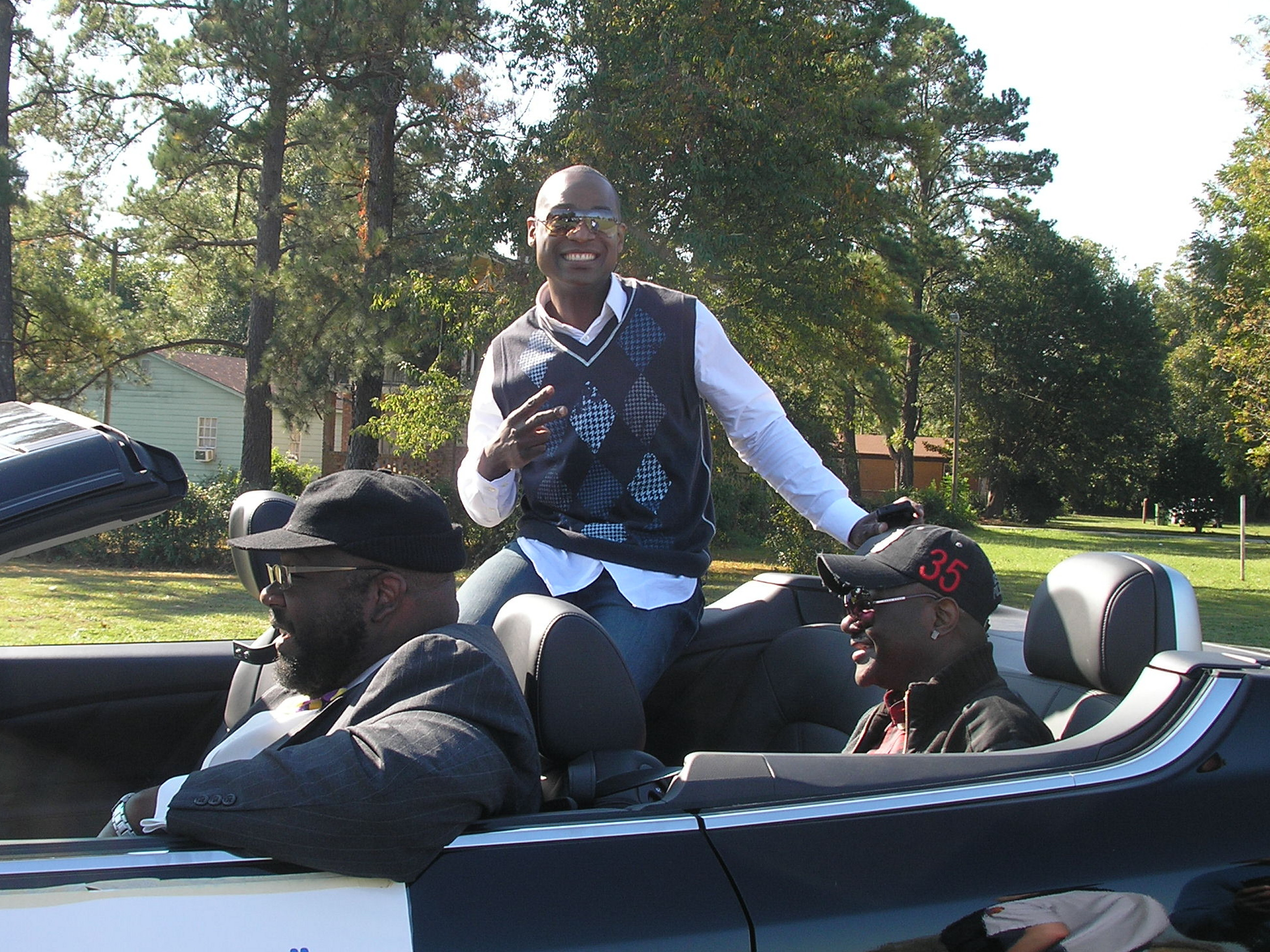 Trey Lorenz at the Wilson High School Homecoming parade in Florence, South Carolina on Oct 22, 2011.